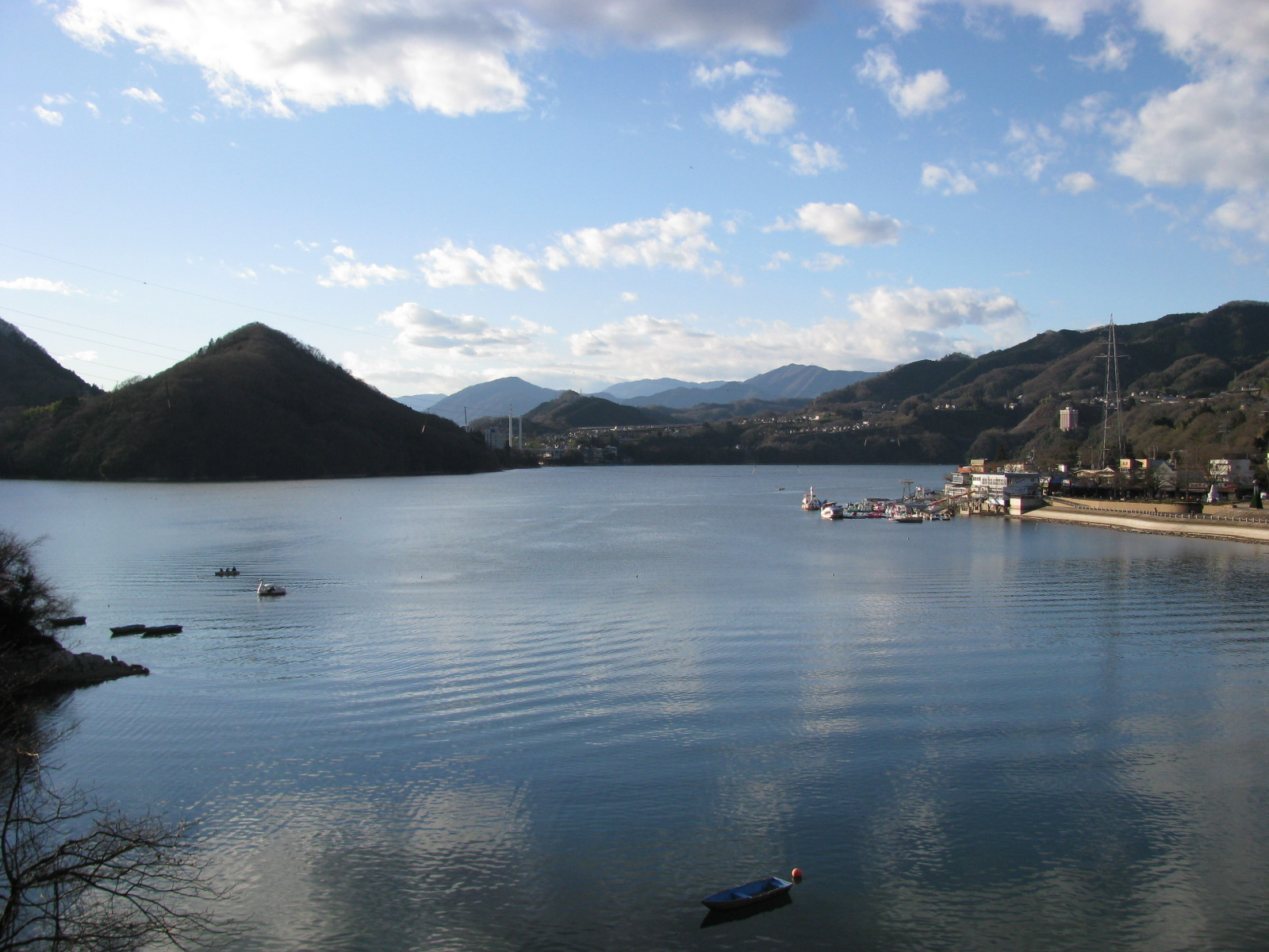 The Sagami-ko is an artificial lake, located in Sagamihara, Kanagawa, Japan.